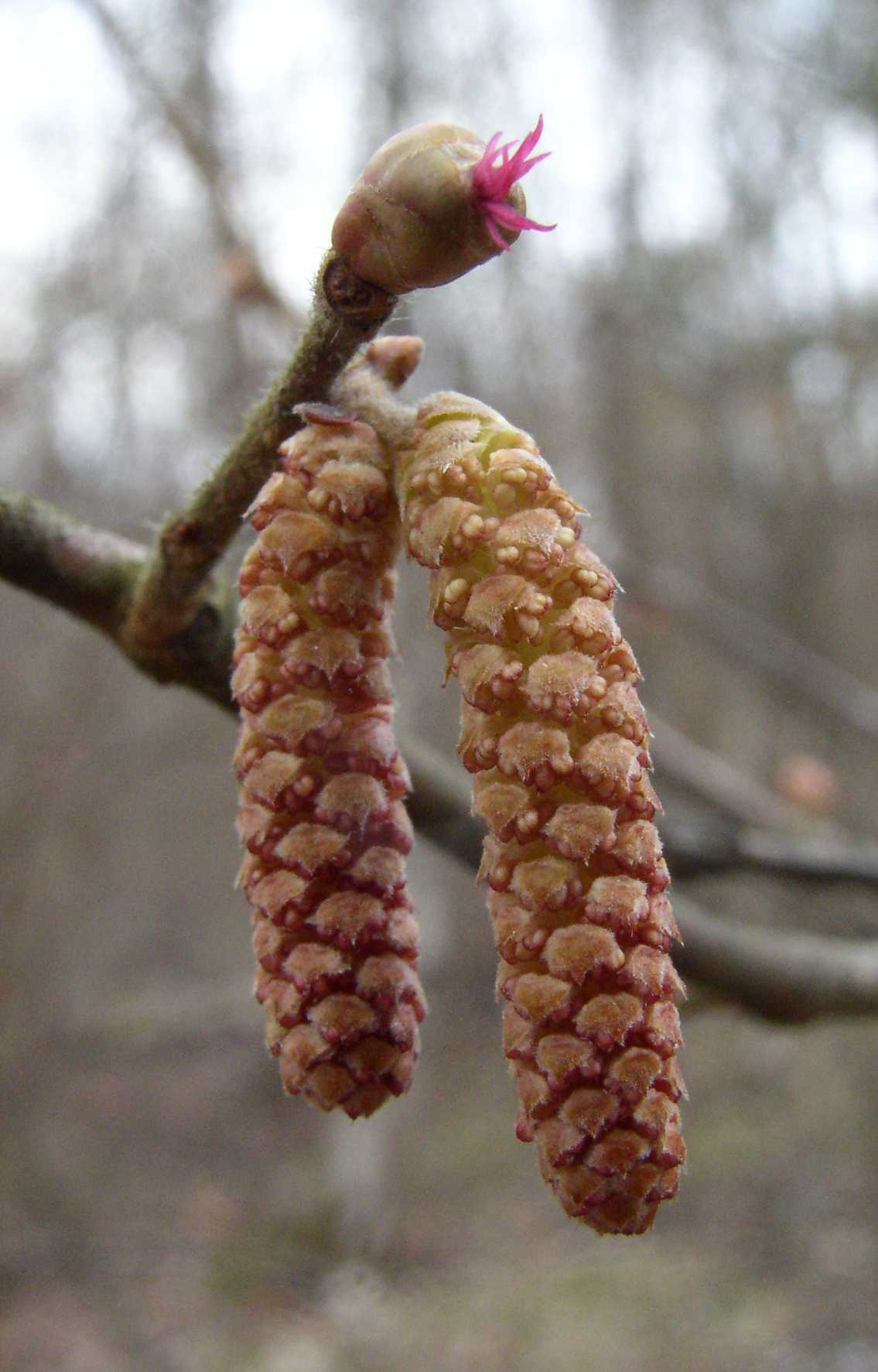 Female and male flowers of Common Hazel (Corylus avellana) in Turku, Finland.